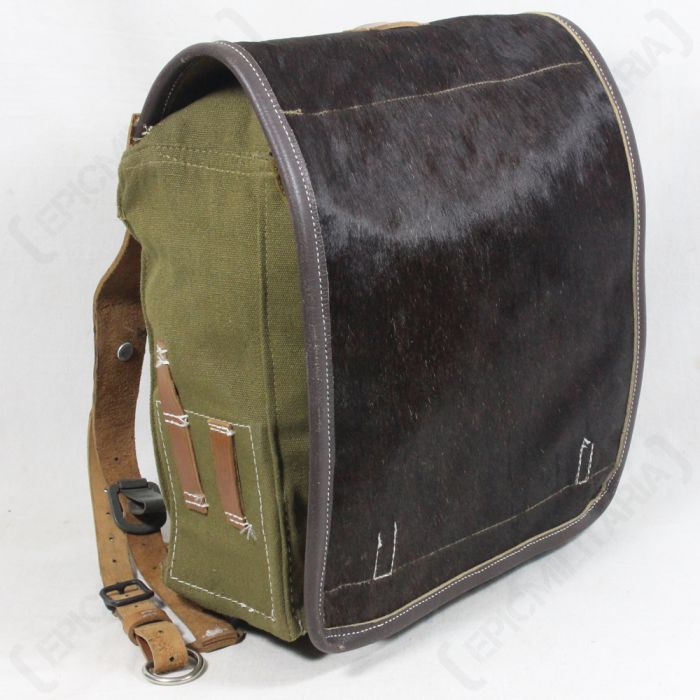 German Army Tornister, used during WW I and WW II. Typically a rolled up blanket would be placed around the top and sides of the bag. You can see the identical basic design of this bag compared to the Japanese Randoseru bag.